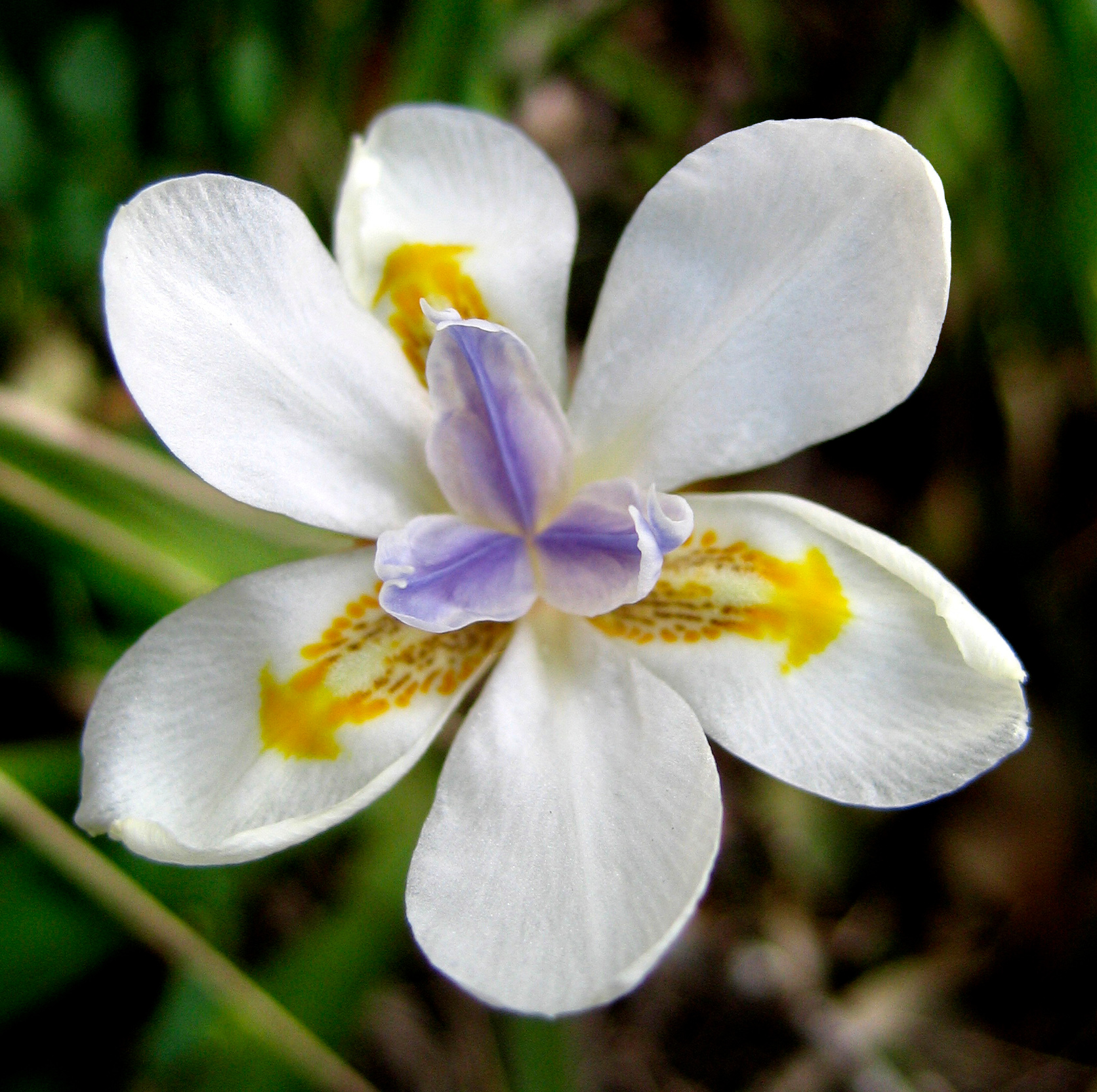 African Iris. Also called Fortnight lily or Morea iris